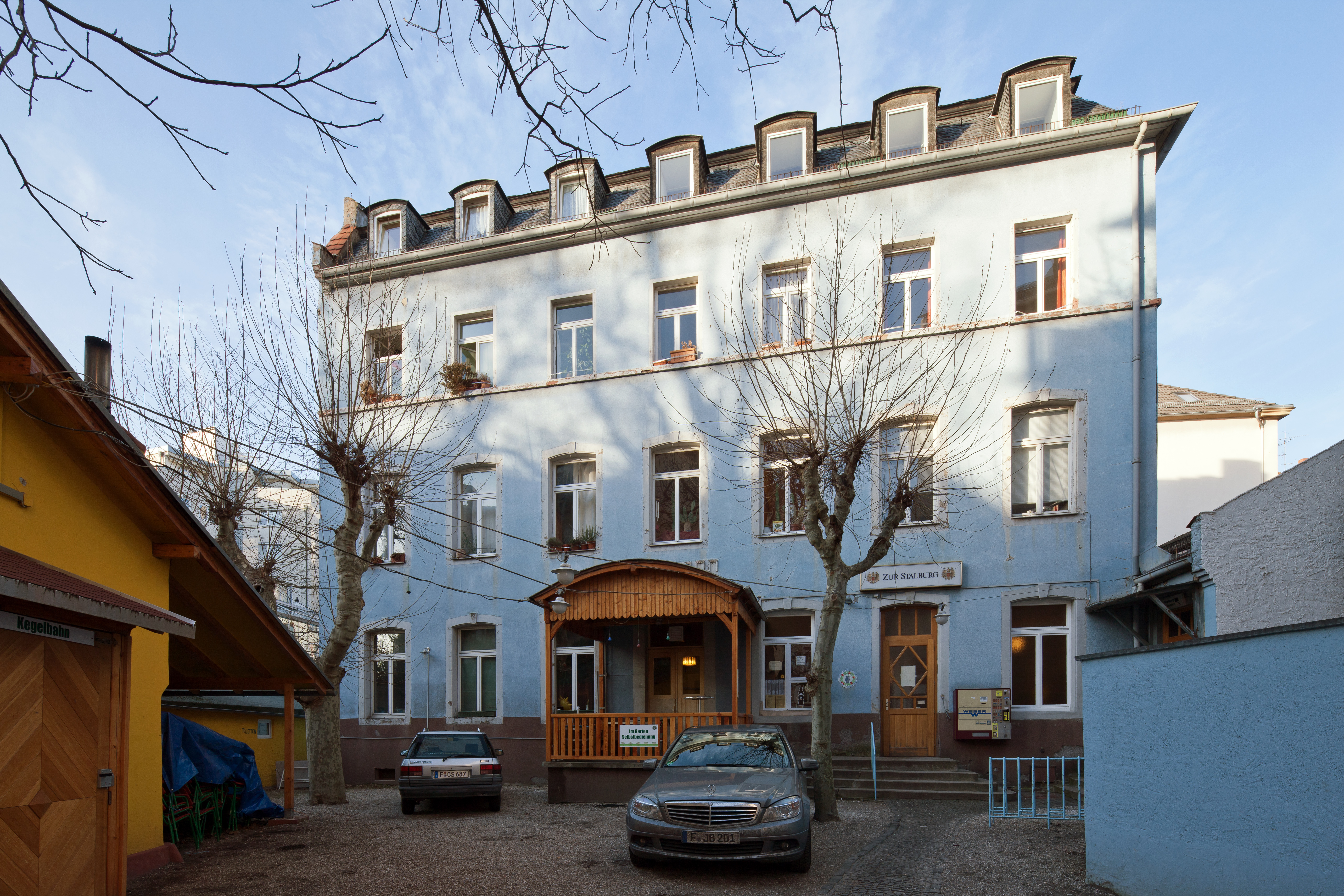 Frankfurt on the Main: Stalburger Oede (Stalburg Waste), main building as seen from the south